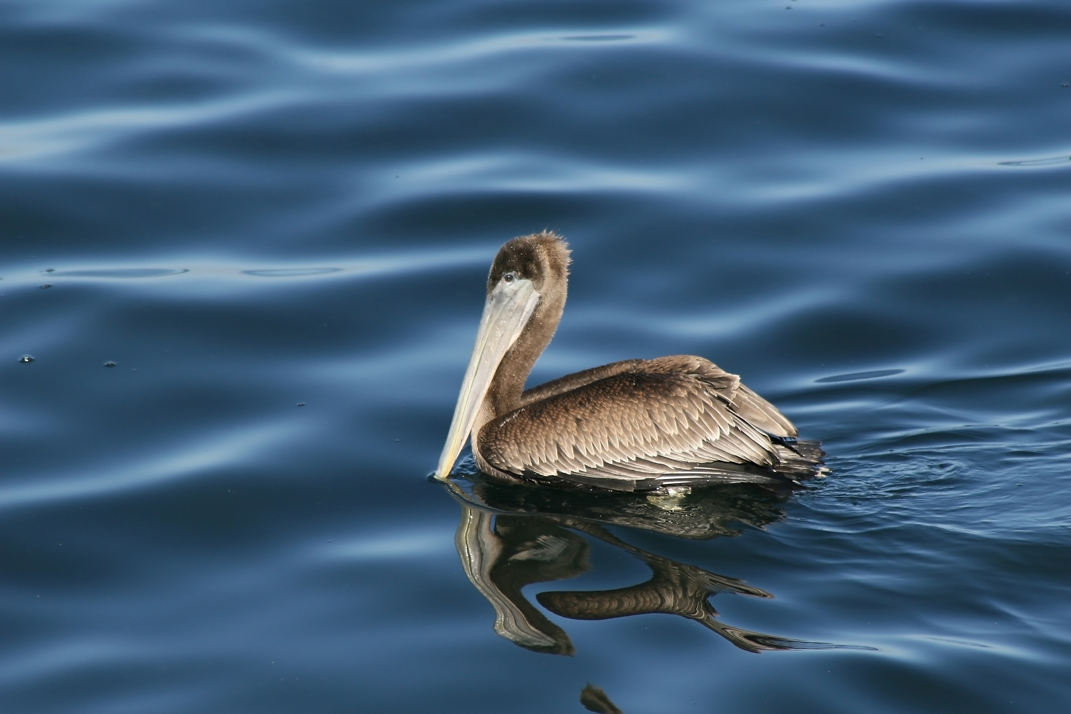 Photo of a Brown Pelican, Santa Cruz, California